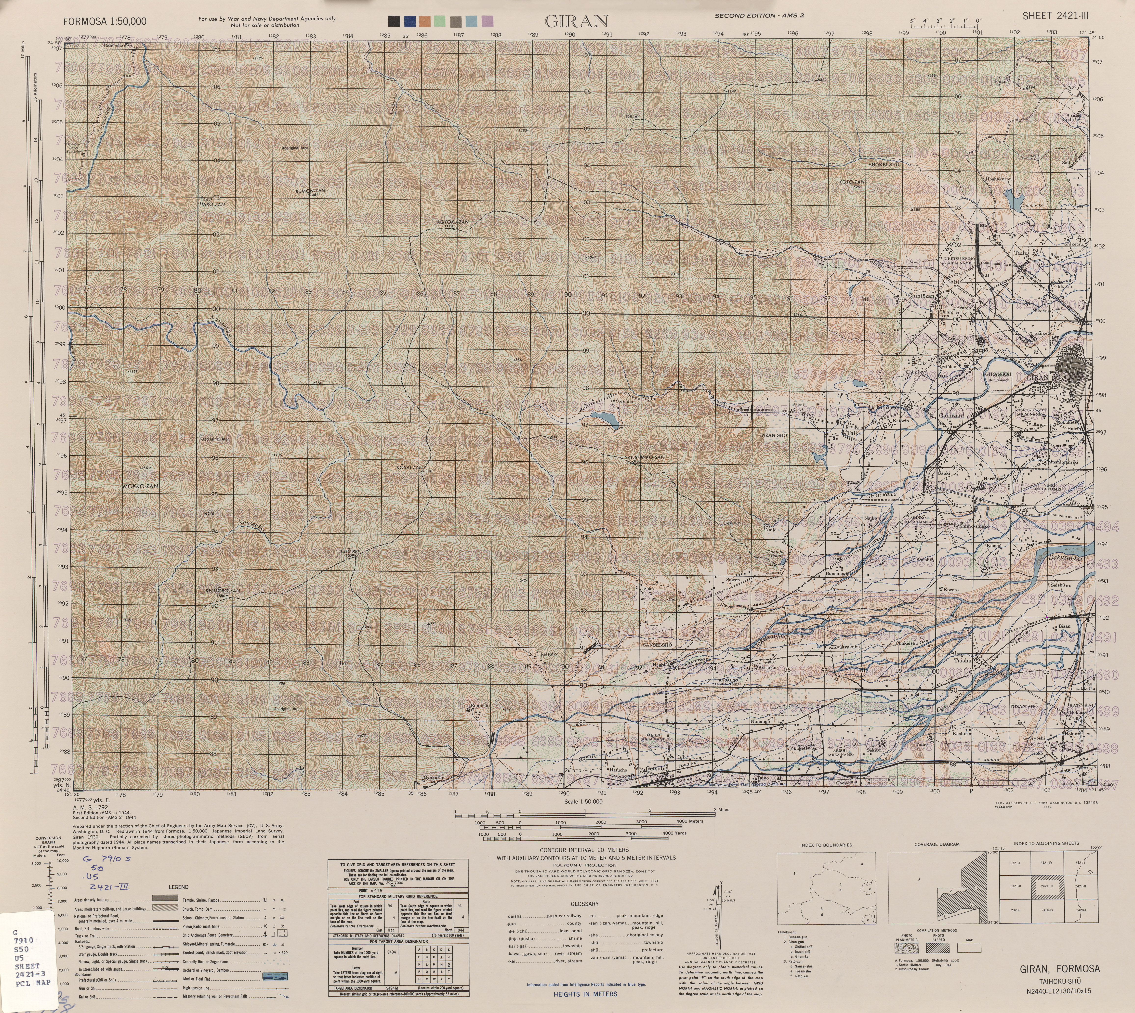 Map from Formosa (Taiwan) 1:50,000 AMS Series L792